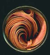 Modern chipped beef, showing coiled packing in jar Image copyright ©2005 by Daniel P. B. Smith and dual-licensed as shown below.